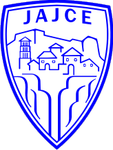 Coat of arms of Jajce